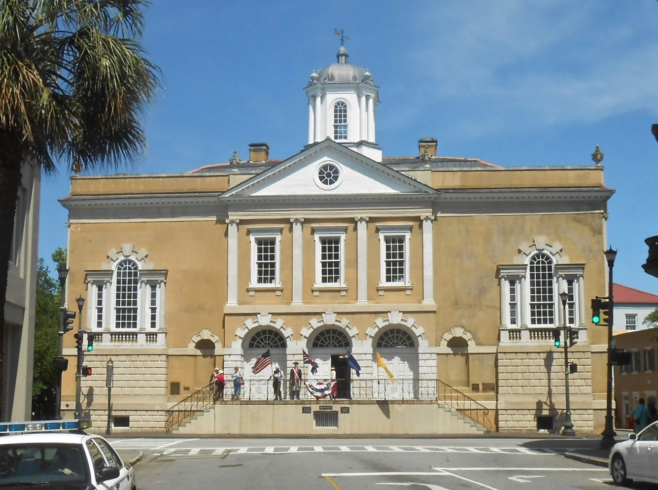 The Customs and Exchange House at the intersection of Broad St. and East Bay St. in Charleston, South Carolina.